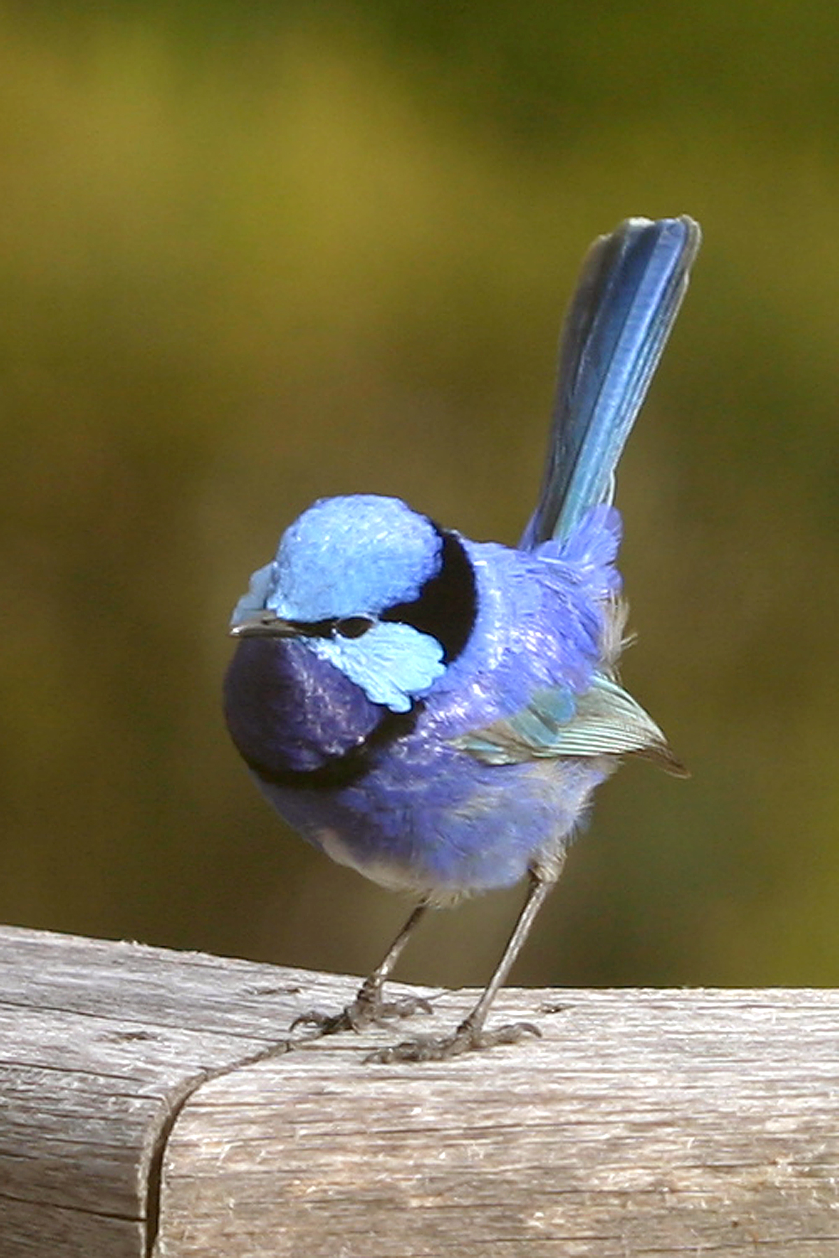 Splendid Blue Wren, Malurus splendens, in Denmark, Western Australia.